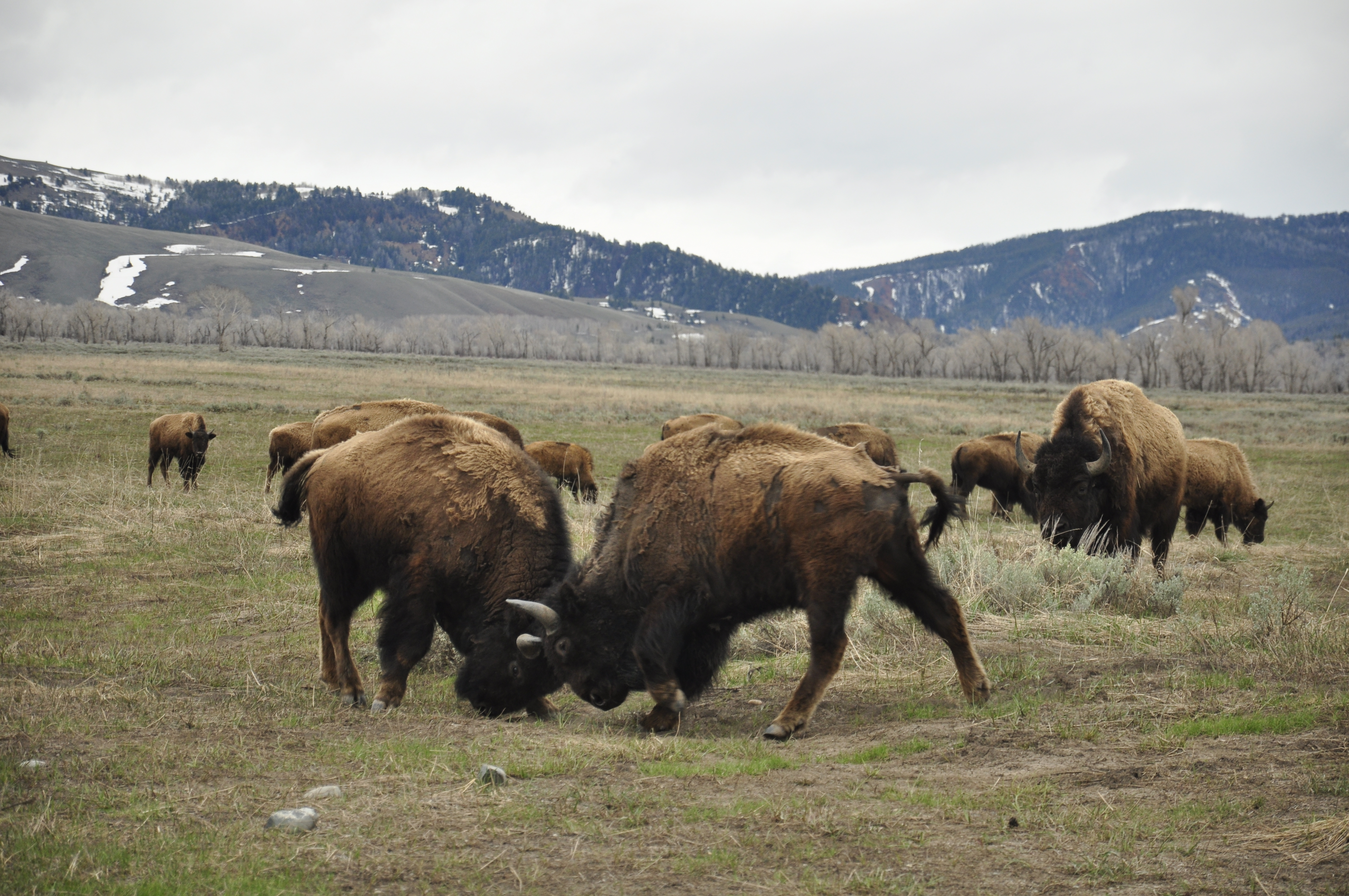 Two bison are fighting in Grand Teton National Park